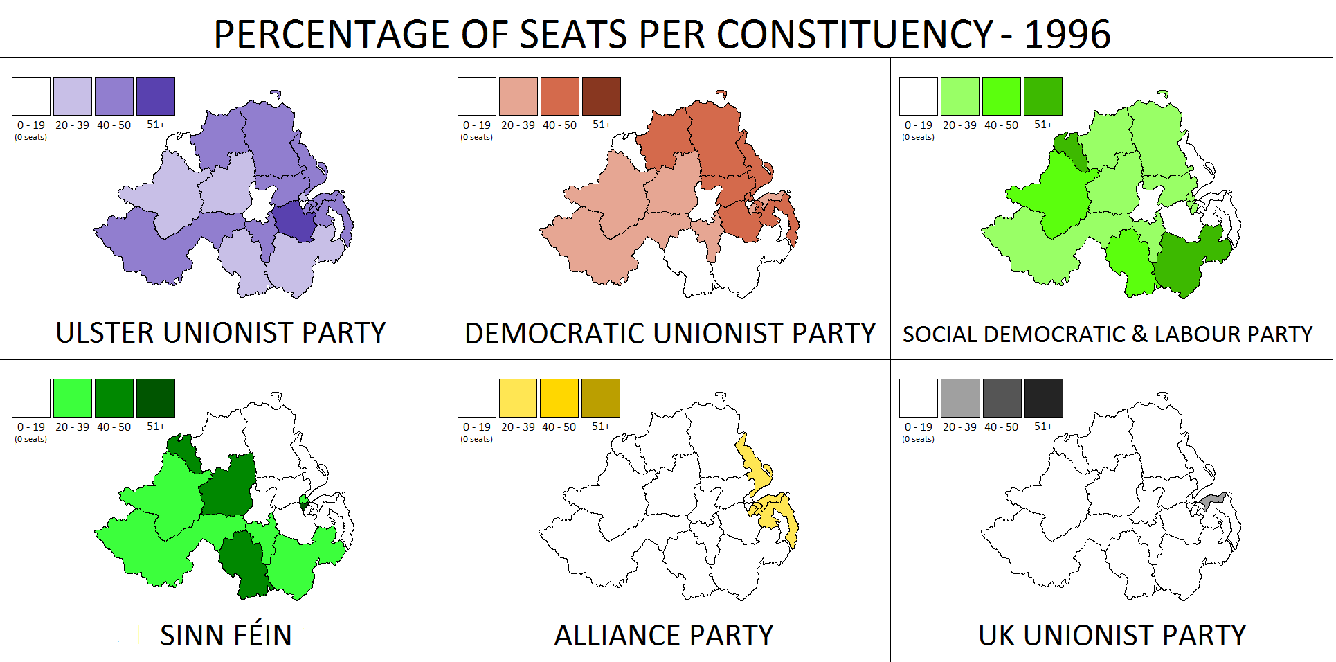 Map showing the results of the 1996 Northern Ireland Forum elections.